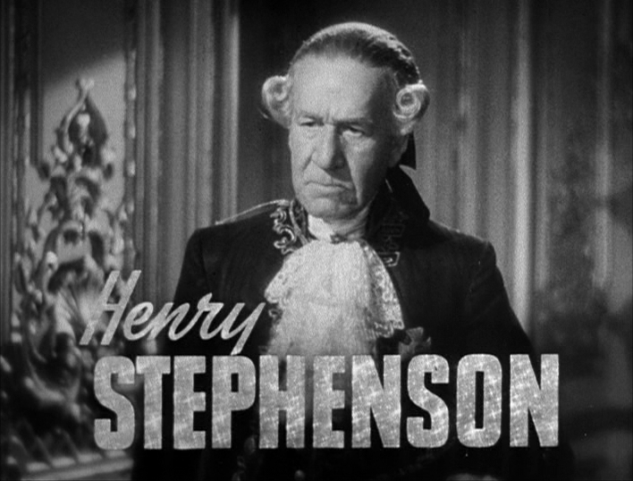 Cropped screenshot of Henry Stephenson from the trailer for the film Marie Antoinette